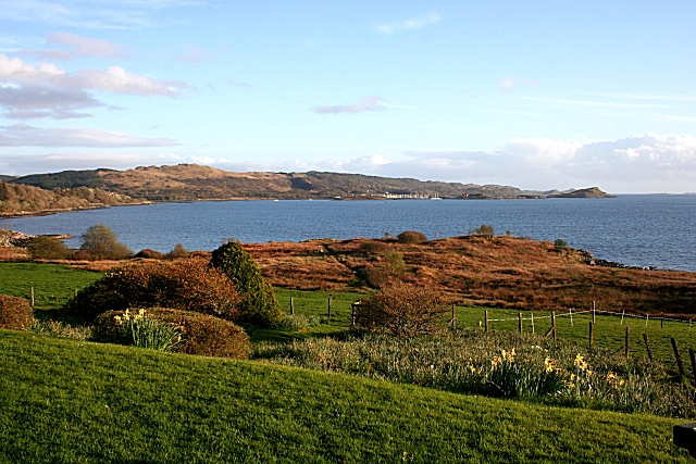 Asknish Bay. The view across Asknish Bay from Loch Melfort Hotel. The white patch at the far side of the bay is the masts of the yachts moored in the marina at Craobh Haven. It is amazing that this image was taken within a few minutes of 1272926; such was the changeability of the weather this evening.